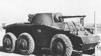 Armored Car T21 first pilot at Aberdeen Proving Ground